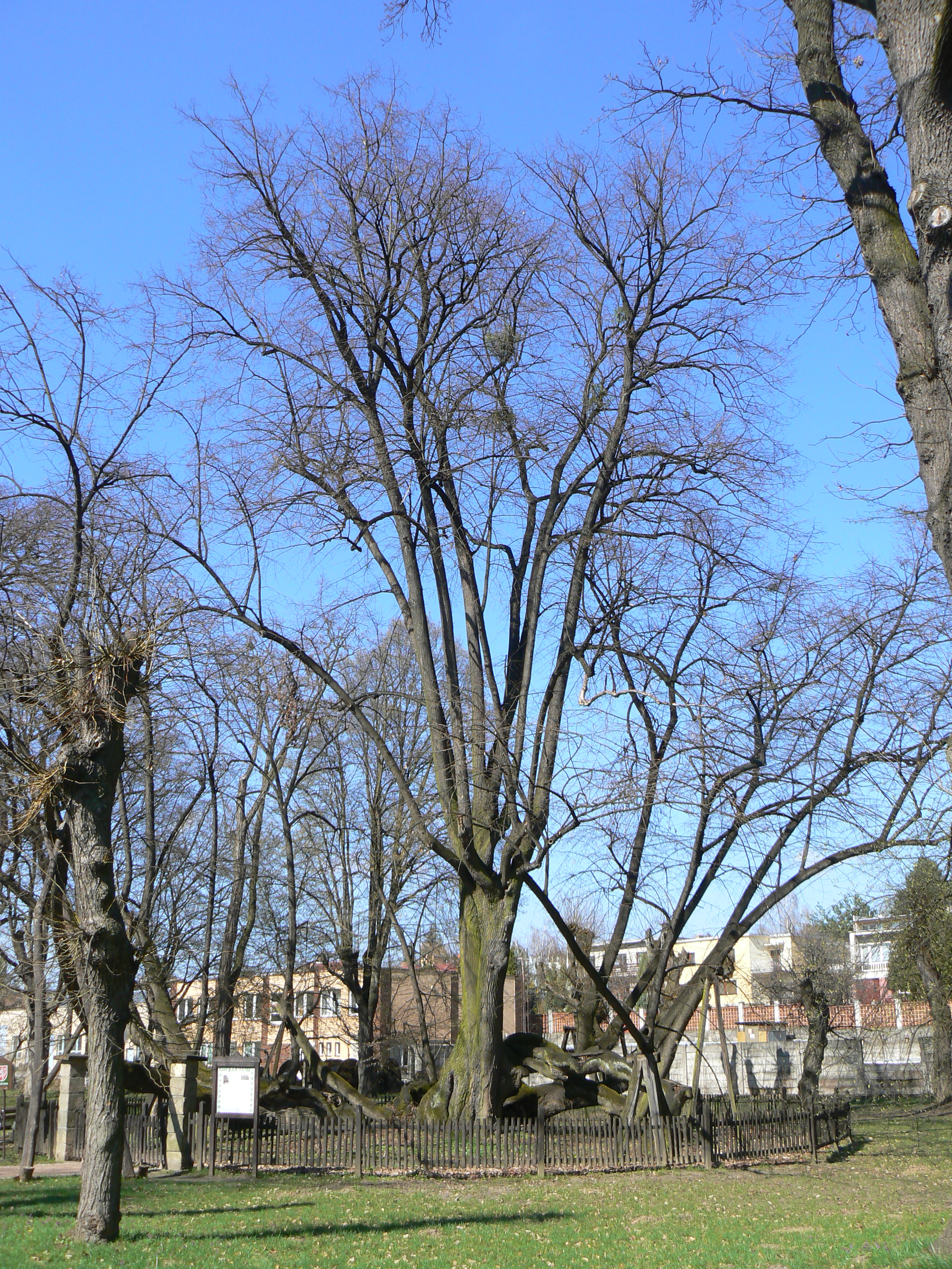 Lime tree in Bzenec, Hodonín District, Czech Republic